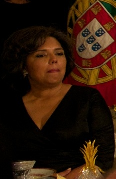 State Visit of President Enrique Peña Nieto to Portugal (5 June 2014). State dinner at the Palácio Nacional da Ajuda. Pictured, left to right: Laura Ferreira, Spouse of the Prime Minister of Portugal; Assunção Esteves, President of the Assembly of the Portuguese Republic; Maria Cavaco Silva, First Lady of Portugal; Enrique Peña Nieto, President of Mexico; Aníbal Cavaco Silva, President of Portugal; Angélica Rivera, First Lady of Mexico; Pedro Passos Coelho, Prime Minister of Portugal.